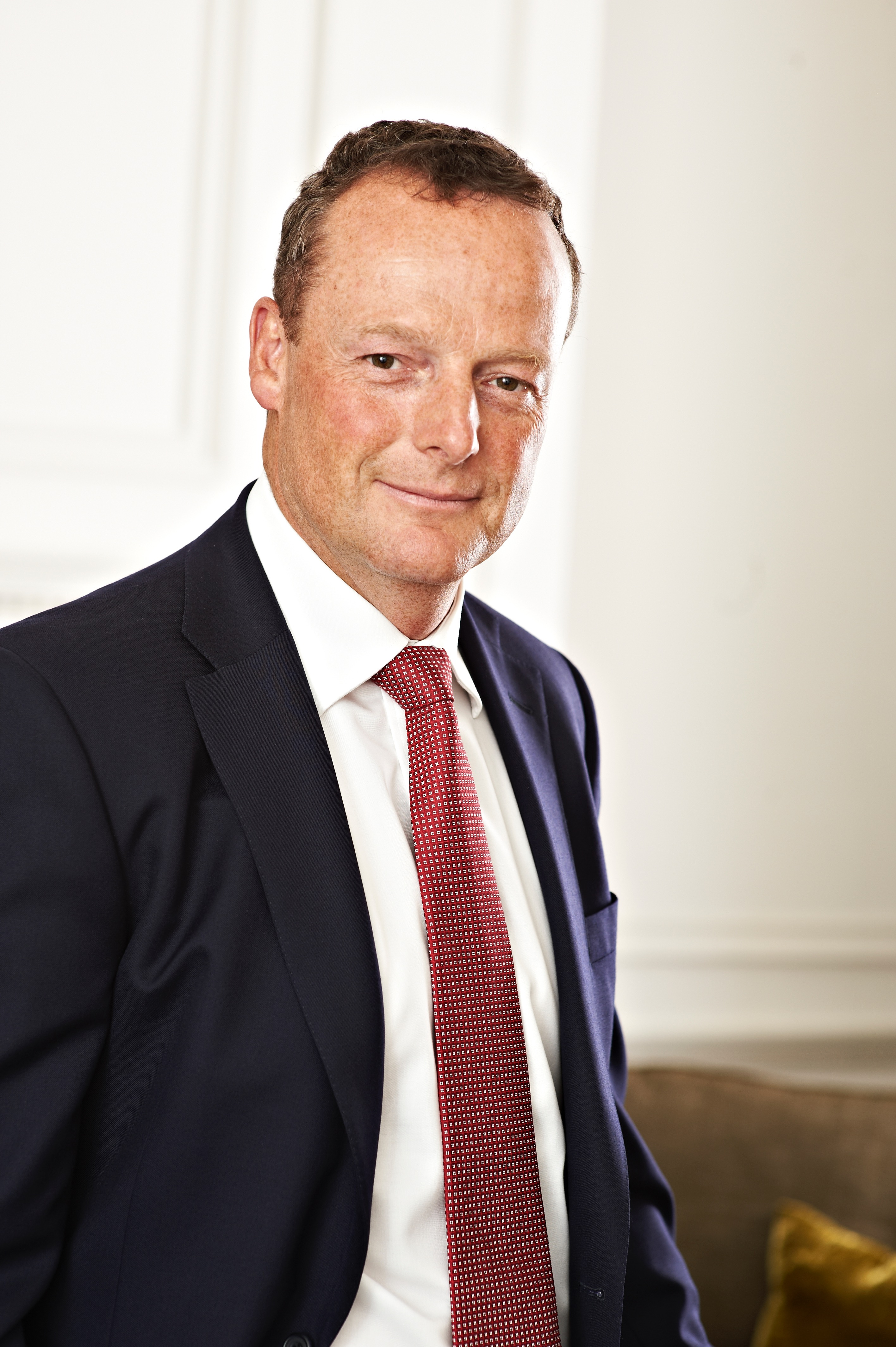 Portrait of Jonathan Webb, surgeon and former England rugby union player